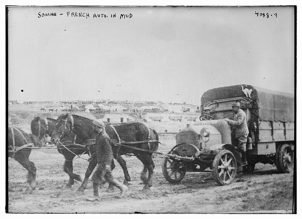 Bain News Service,, publisher. Somme -- French Auto in mud [between ca. 1915 and ca. 1920] 1 negative : glass ; 5 x 7 in. or smaller. Notes: Title from unverified data provided by the Bain News Service on the negatives or caption cards. Forms part of: George Grantham Bain Collection (Library of Congress). Format: Glass negatives. Repository: Library of Congress, Prints and Photographs Division, Washington, D.C. 20540 USA, General information about the Bain Collection is available at Higher resolution image is available (Persistent URL): Call Number: LC-B2- 4088-9